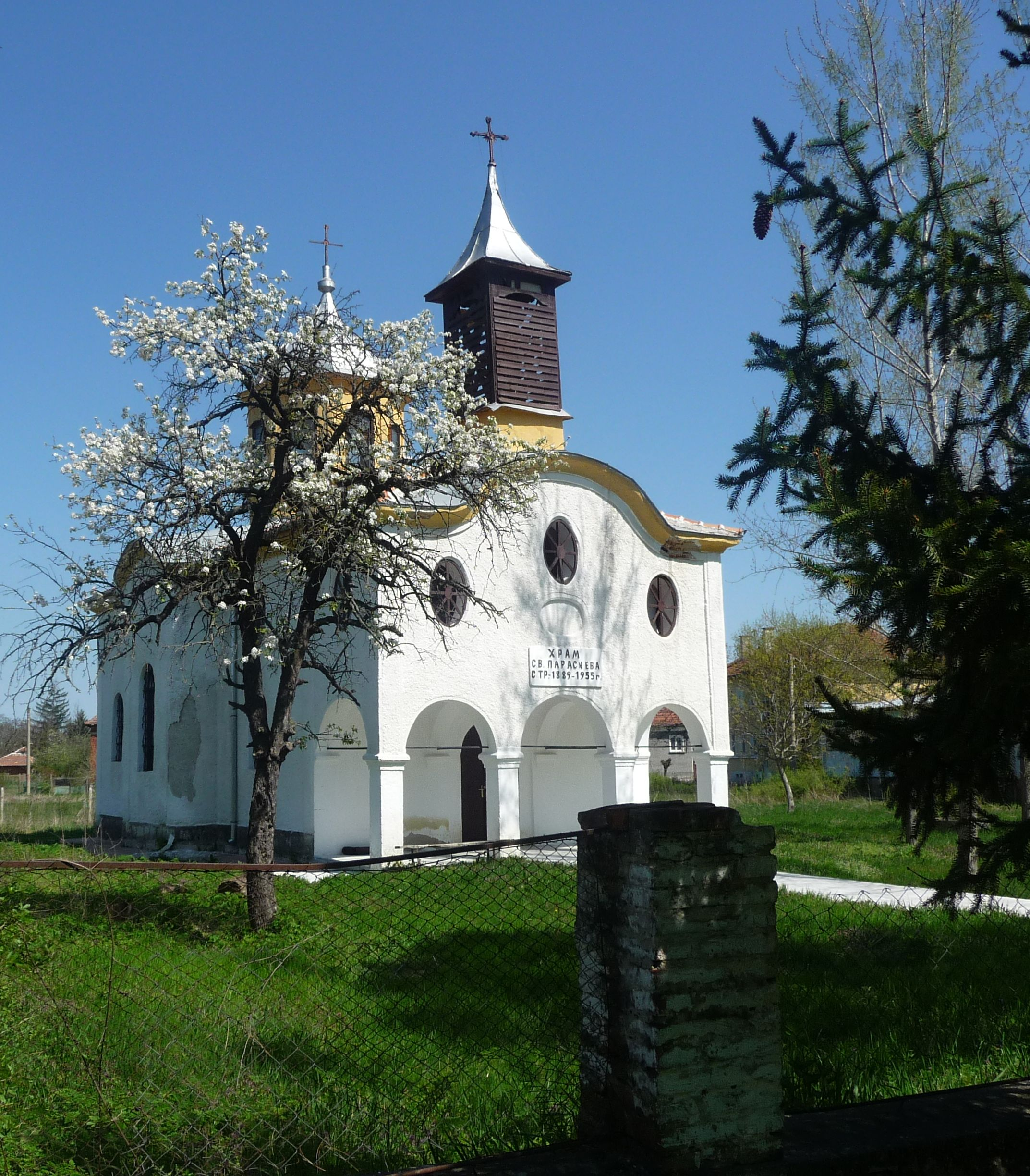 The orthodox church "Saint Paraskeva" in the village of Nivyanin (Jurilovo), Bulgaria. Construction Start Year - 1889.